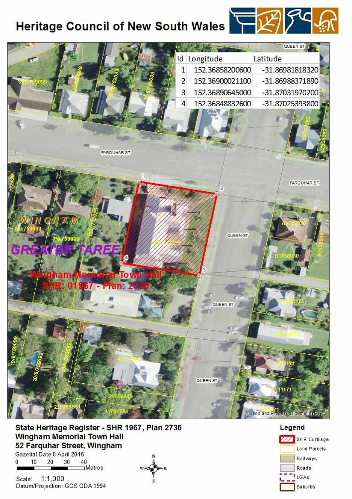 Wingham Memorial Town Hall: SHR Plan No 2736